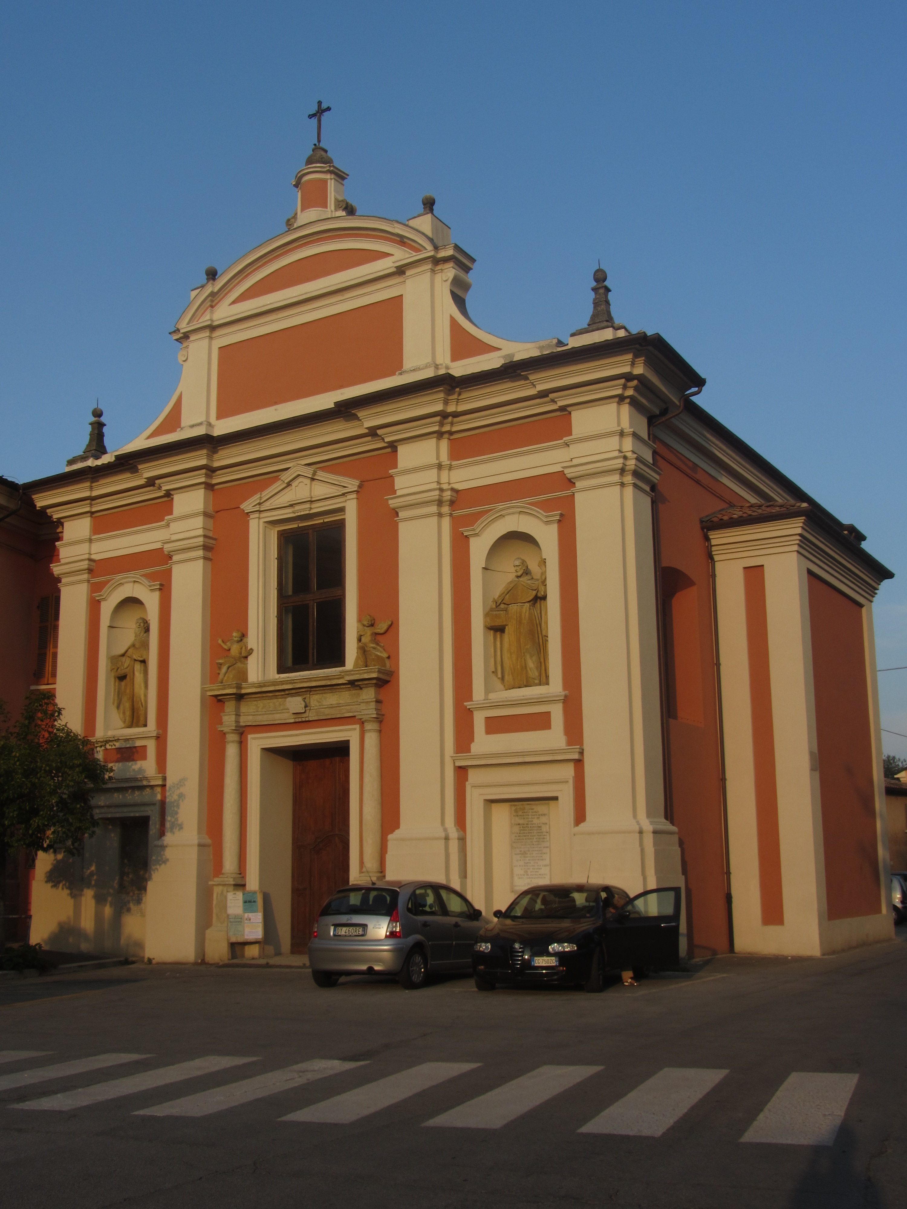 Savignano sul Rubicone, Chiesa della Santissima Trinità (detta della Madonna Rossa)